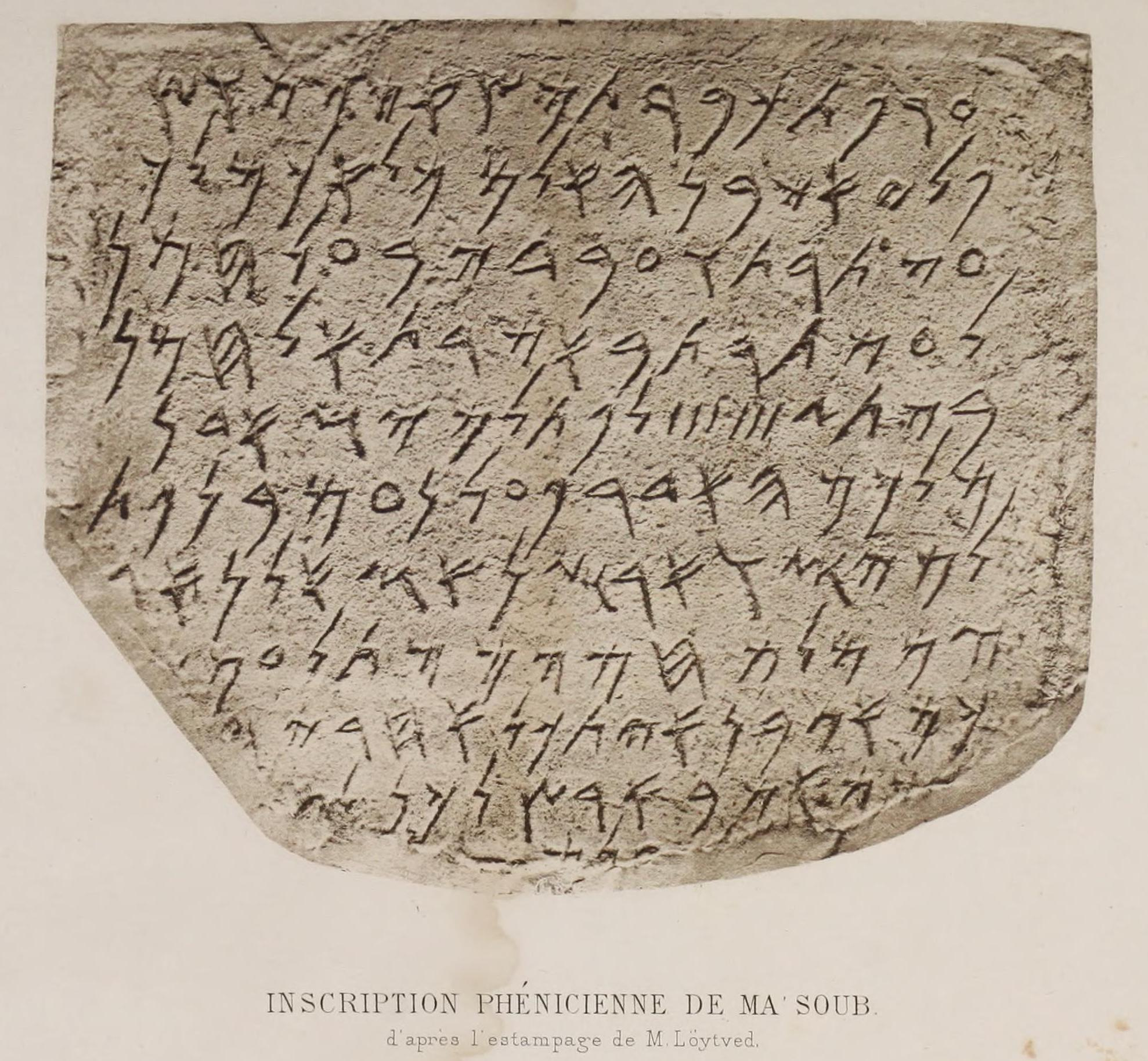 Masub inscription KAI 19